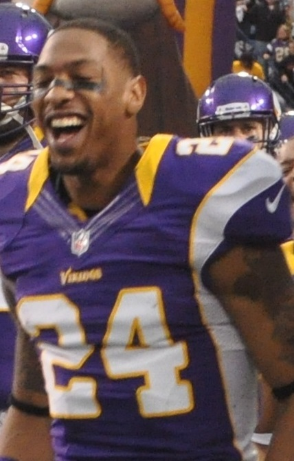 A.J. Jefferson #24, Christian Ballard #99, John Sullivan #65, and other Minnesota Vikings players in pre-game introduction